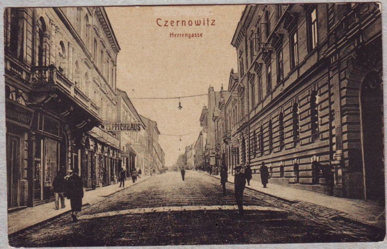 Czernowitz Herrengasse